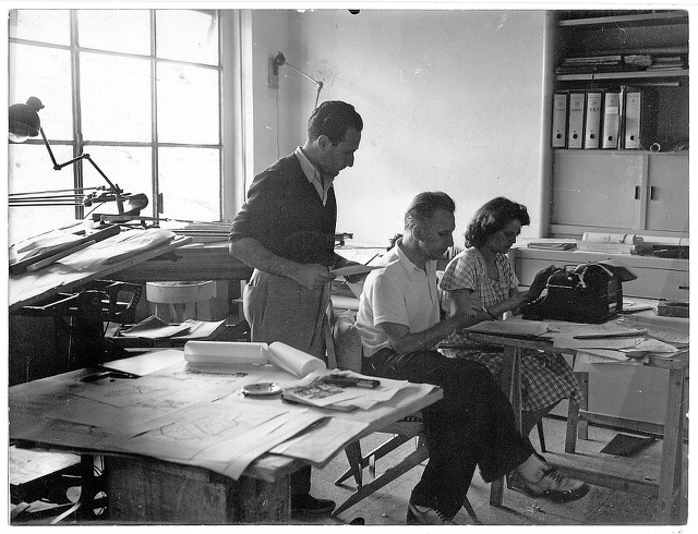 Image shows Eugenio Gentiki Tedeschi in his Milan studio with two colleagues